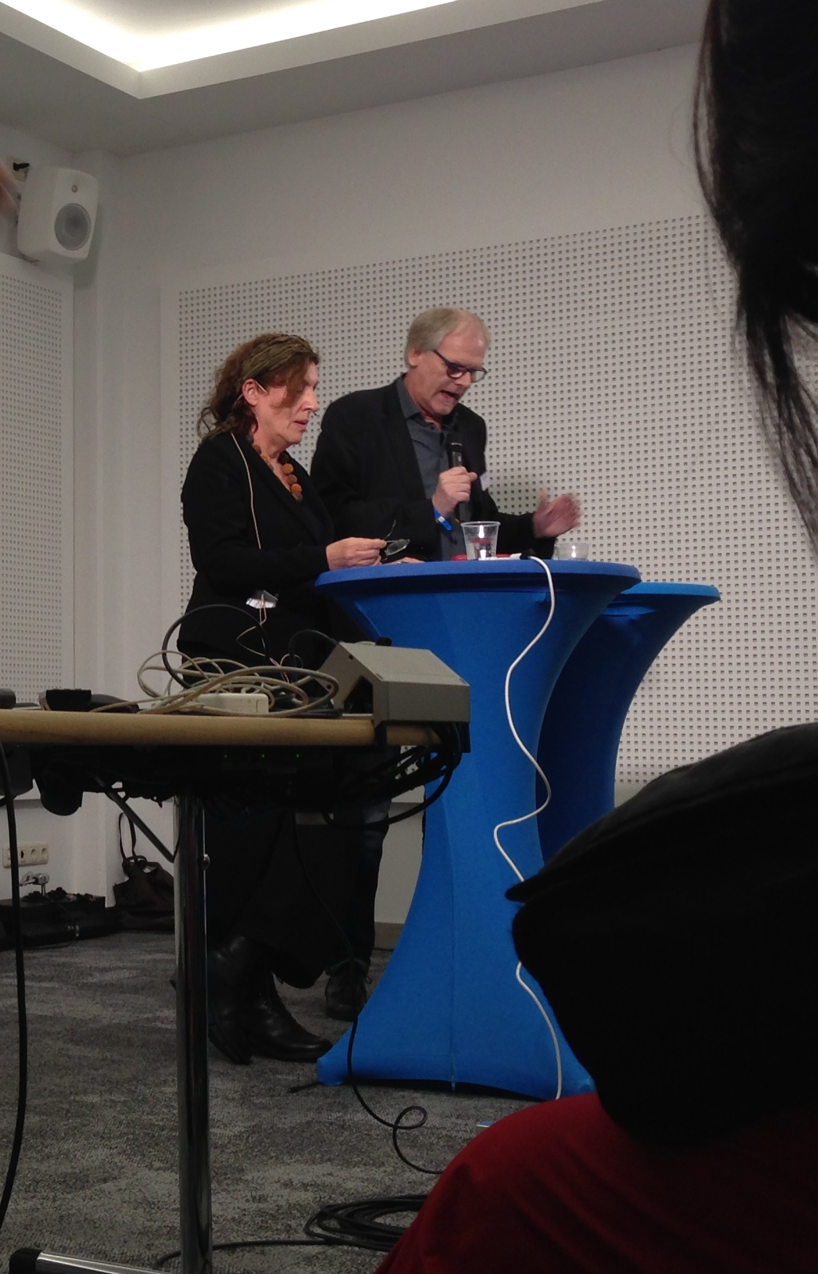 theater and radio play director Elisabeth Panknin at the "Kölner Kongress 2017" at 2017-03-11 in Cologne